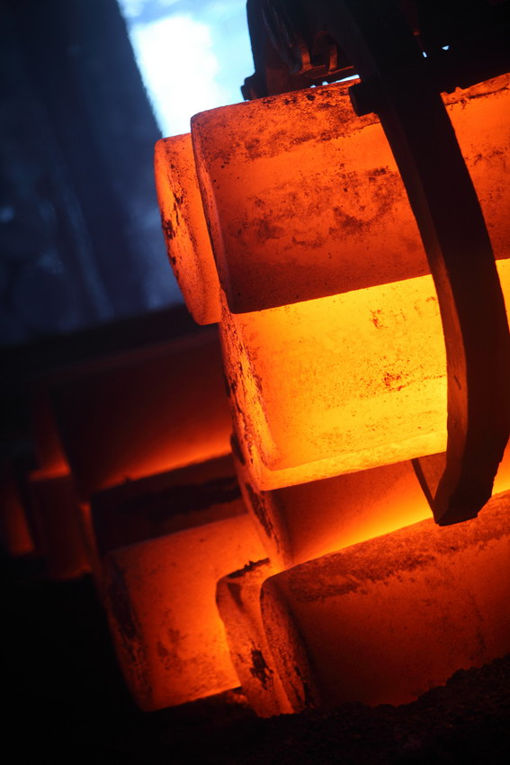 electrodes